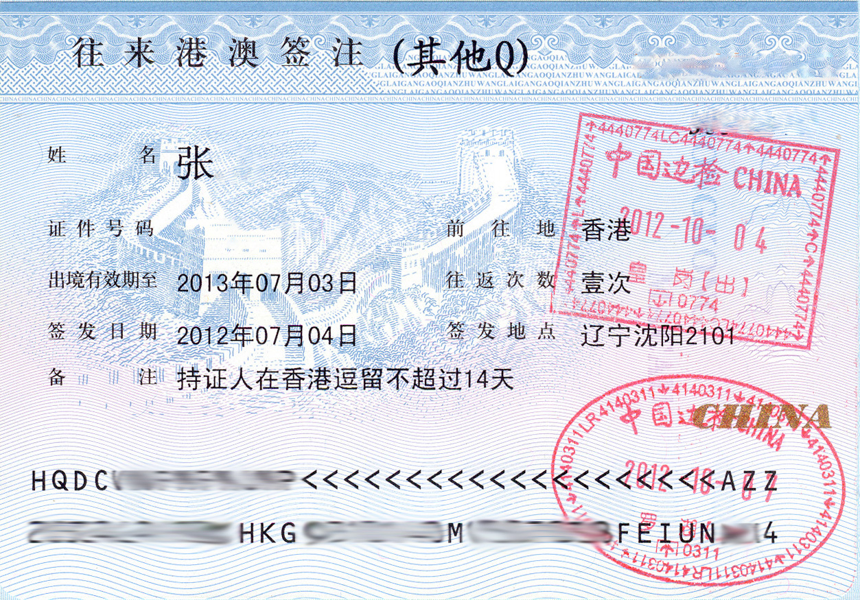 The Hong Kong Visit Permit for other purpose with a stay period of 14 days and single entry issued by People's Republic of China with a Huanggang Port Exit Stamp and a Luohu Port Entry Stamps on a Chinese Two-way Permit for Hong Kong and Macau.